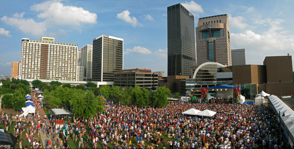 2009 Forecastle Attendees